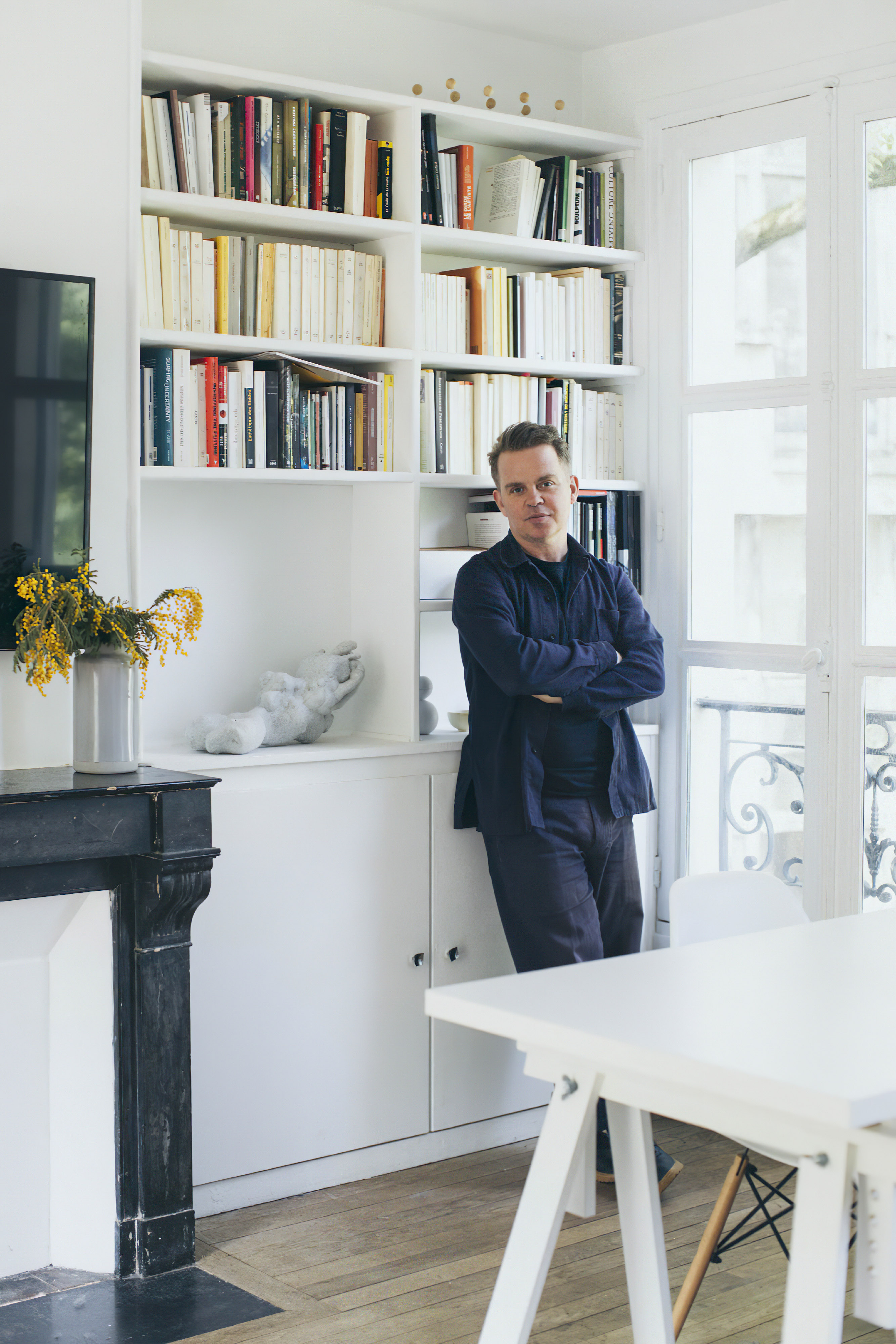 Gregory Chatonsky at Cite des Arts Paris